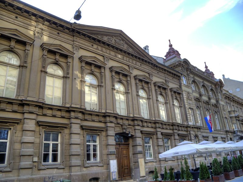 Croatian Music Institute in Zagreb.